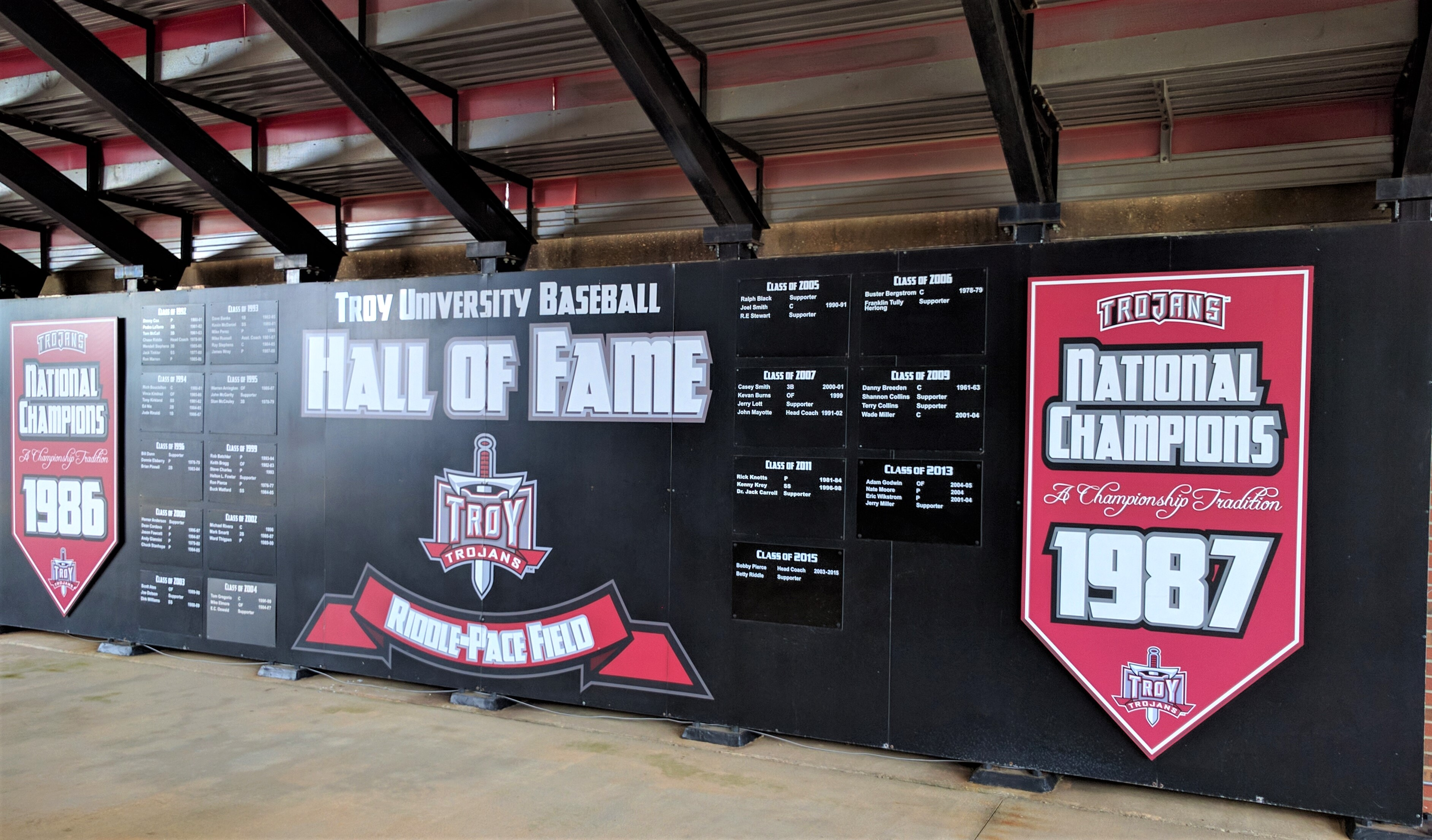 Plaza of Riddle Pace Field.